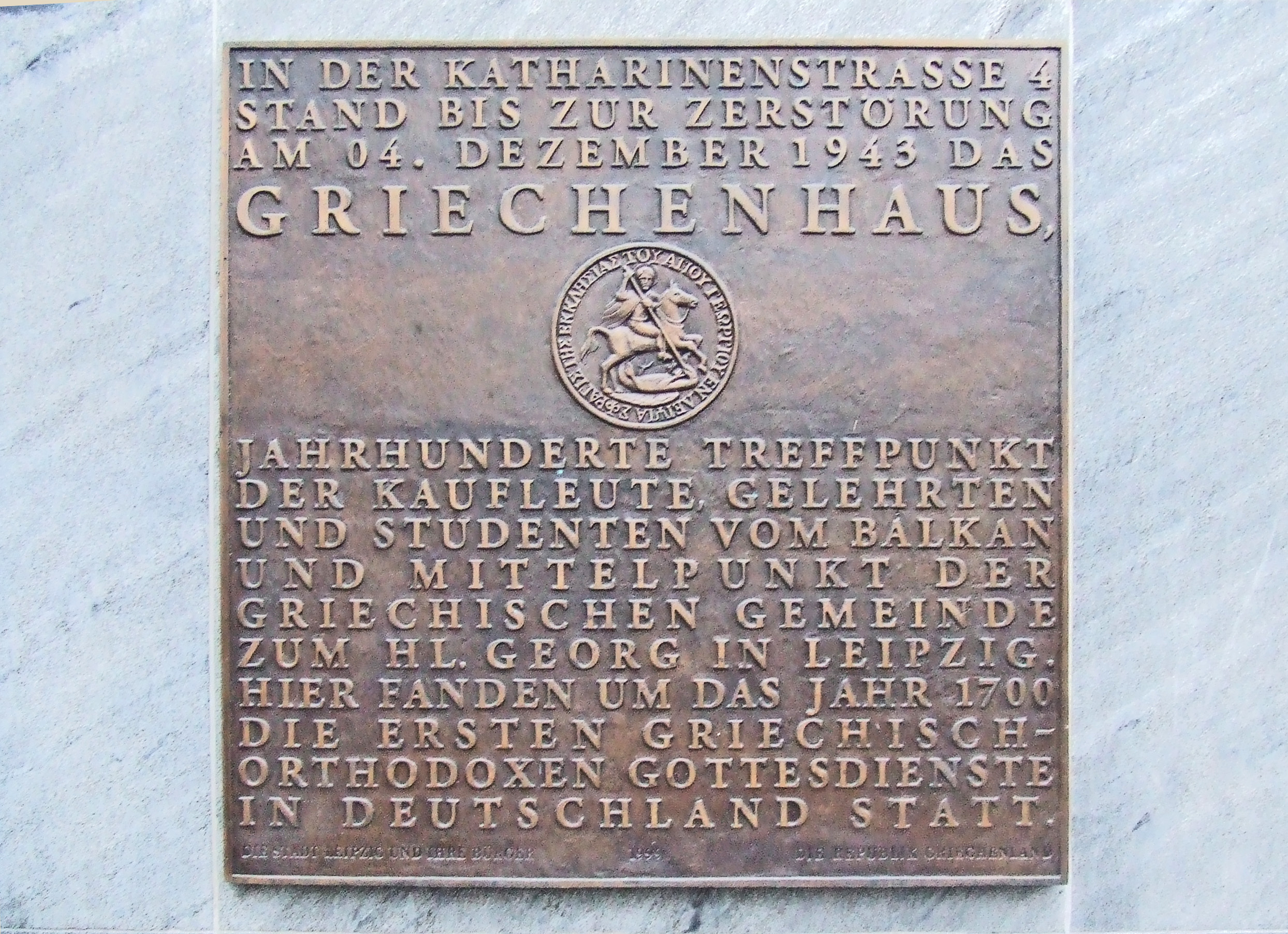 The Griechenhaus (House of the Greeks) in Leipzig (Katharinenstrasse 4), centre of Hellenism in central Europe since 1700. Destroyed in 1943.